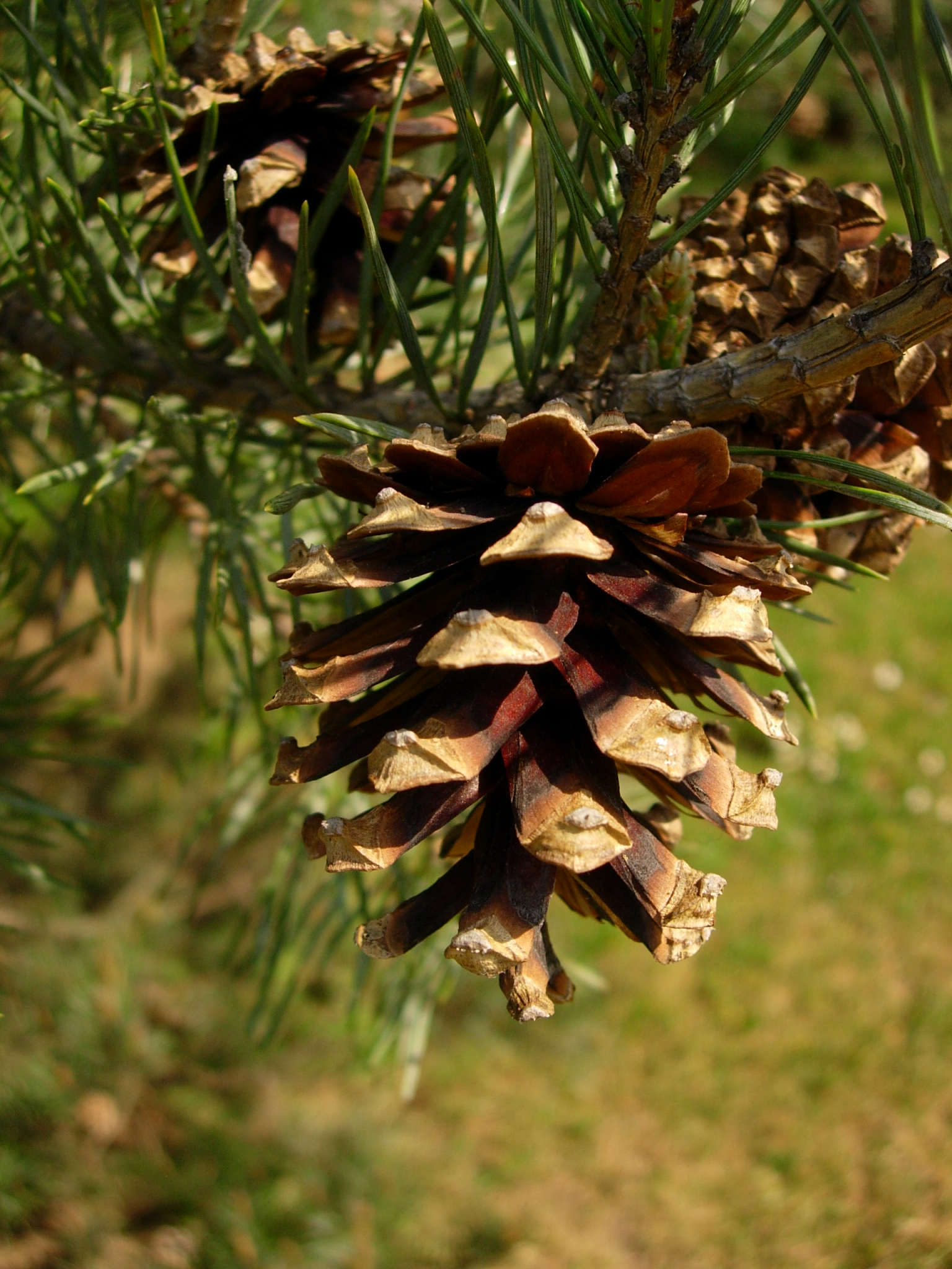 Scots Pine Pinus sylvestris open cones. Cultivated, Thurrock, Essex, UK.